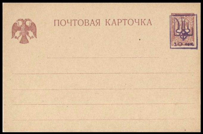 Postcard of the Ukrainian People's Republic